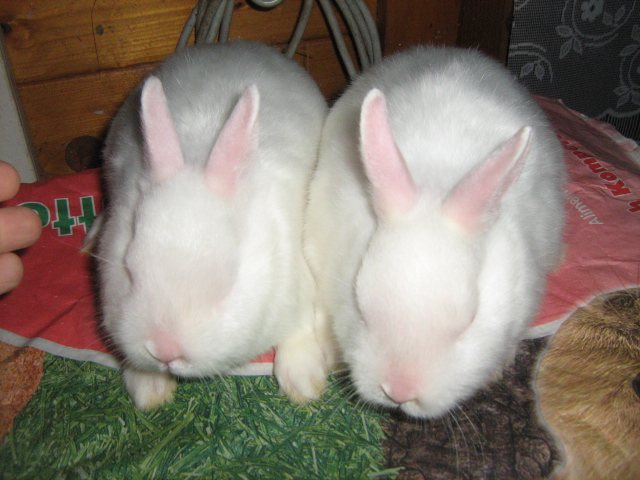 Satin dwarf rabbits (this is a word-by-word-translation of the french breed name "lapins nains satin"), color ivory